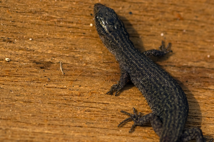 Yucca Night Lizard